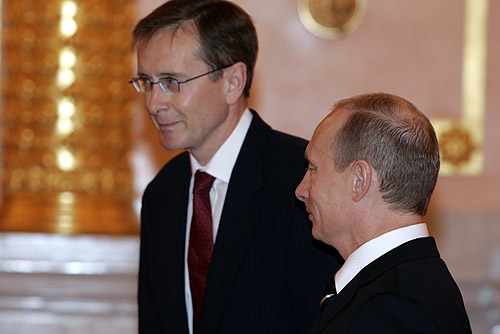 THE GRAND KREMLIN PALACE, MOSCOW. Iceland's ambassador to Russia, Benedikt Asgeirsson, gave the President a letter of credentials.